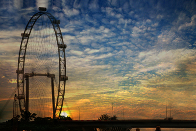 Singapore Flyer - World's Largest Giant Observation Wheel